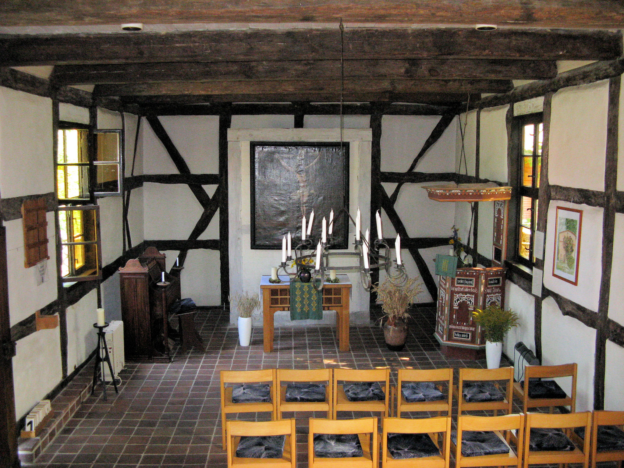 Church in Zielow, disctrict Müritz, Mecklenburg-Vorpommern, Germany